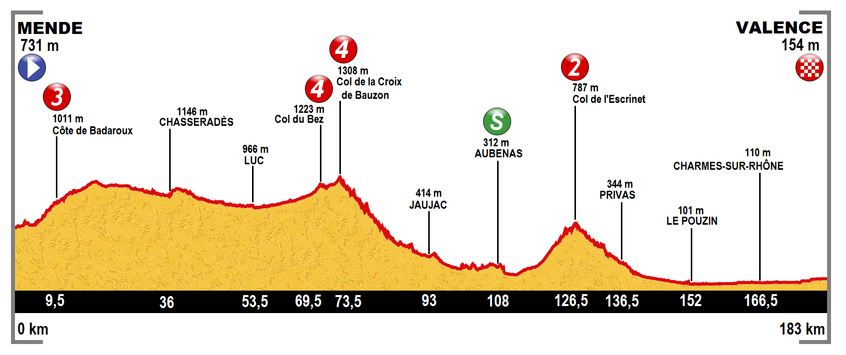 Profile of the 15th stage of the Tour de France 2015